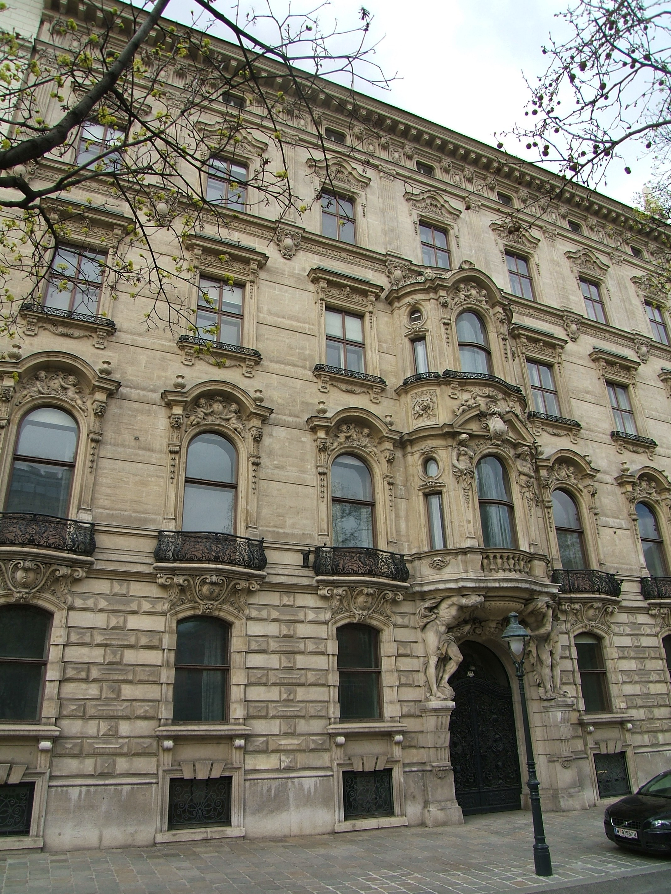 Palais Sturany in Vienna 1st district Schottenring 21